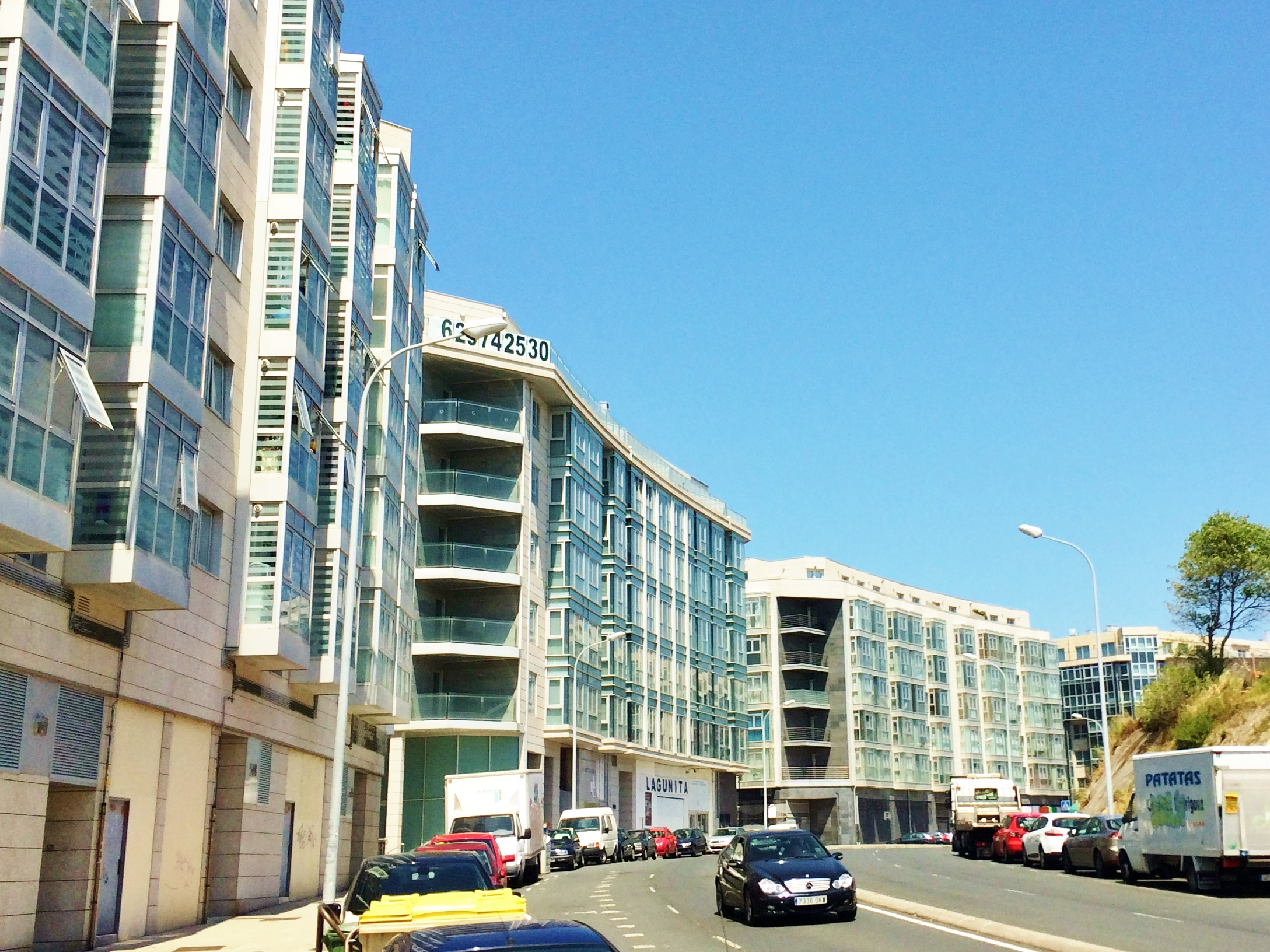 Ronda Monte Alto, A Coruña